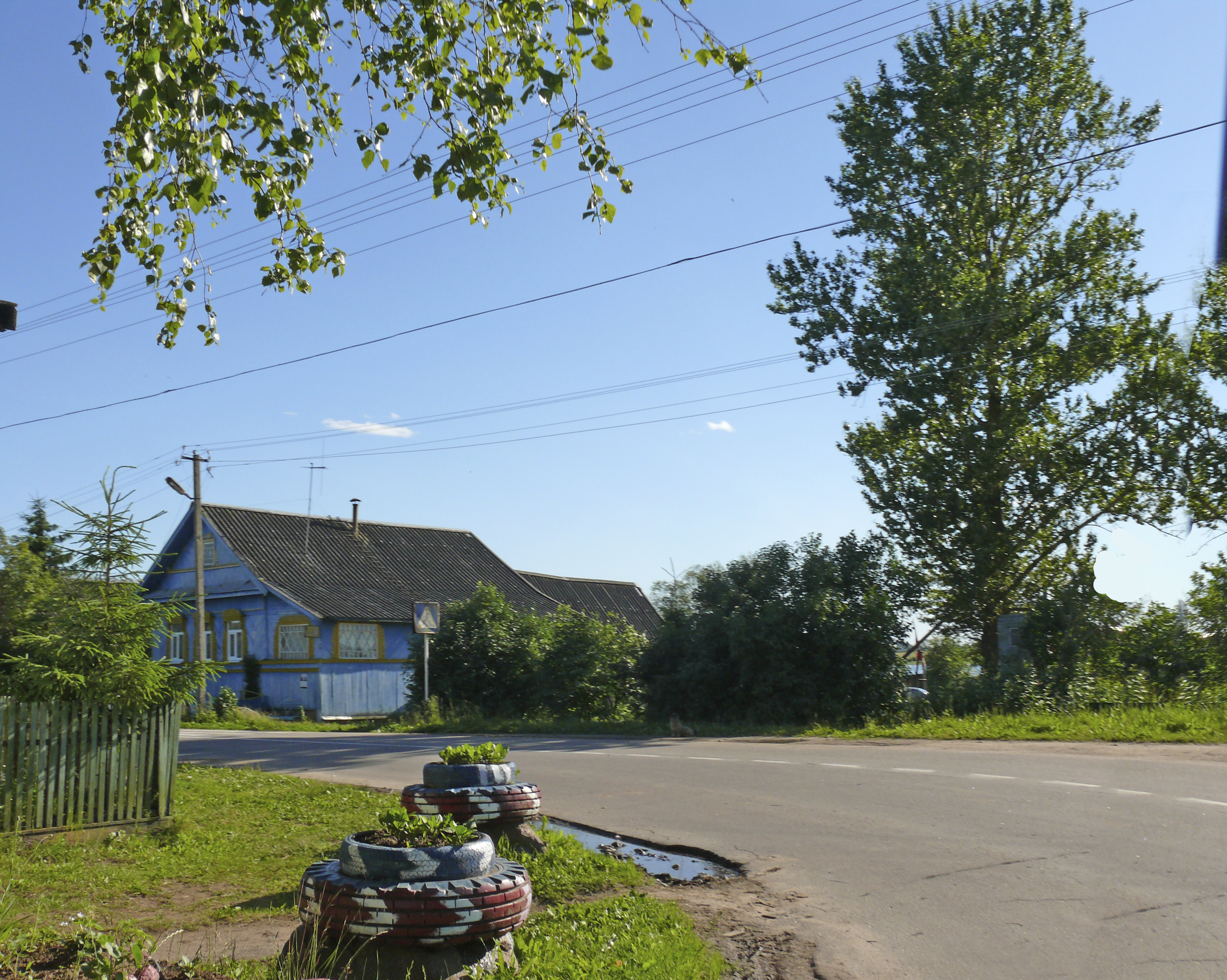 Zabolotie village. Novgorodsky district, Novgorod oblast, Russia